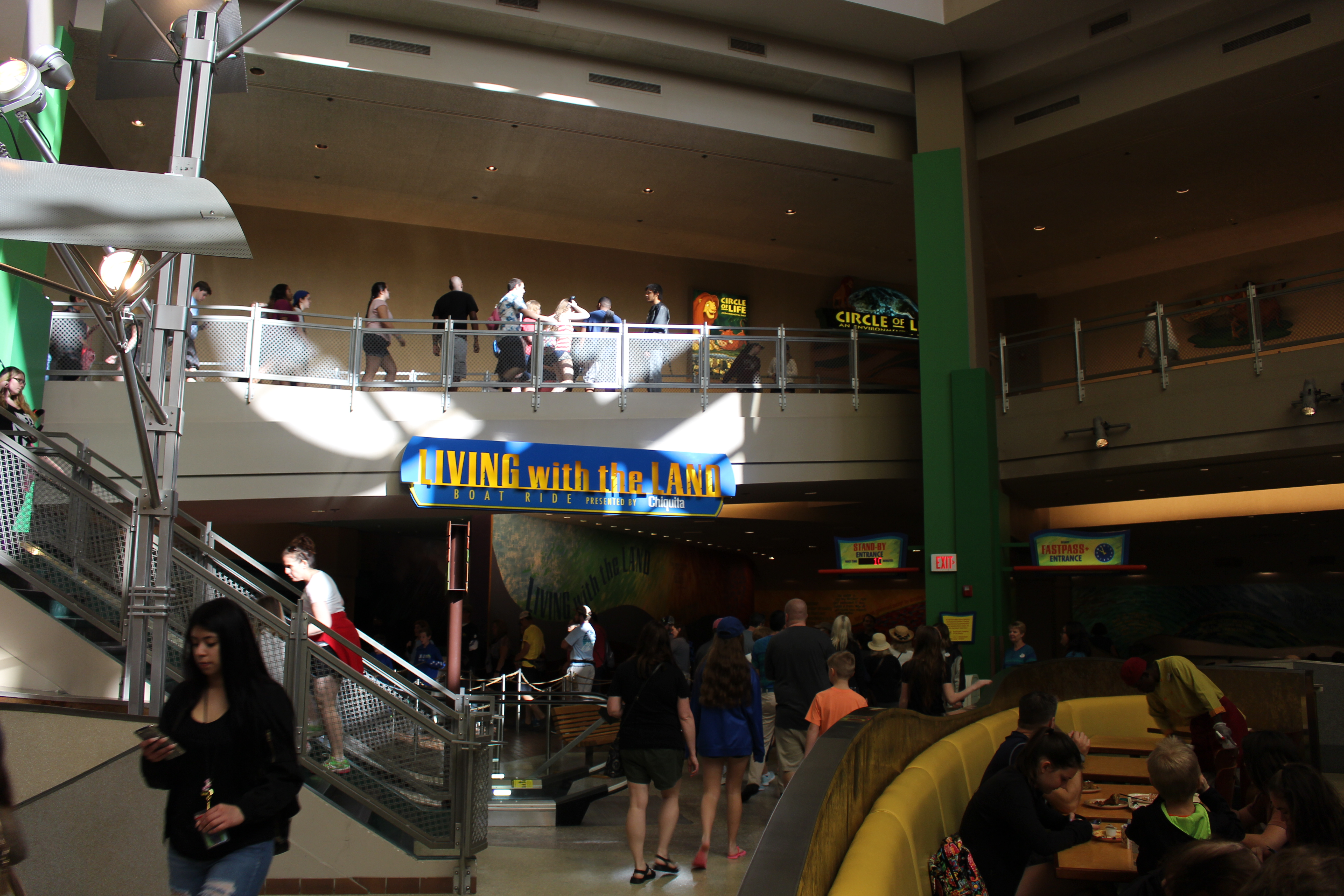 Future World, Epcot, Bay Lake, Orange County, Florida